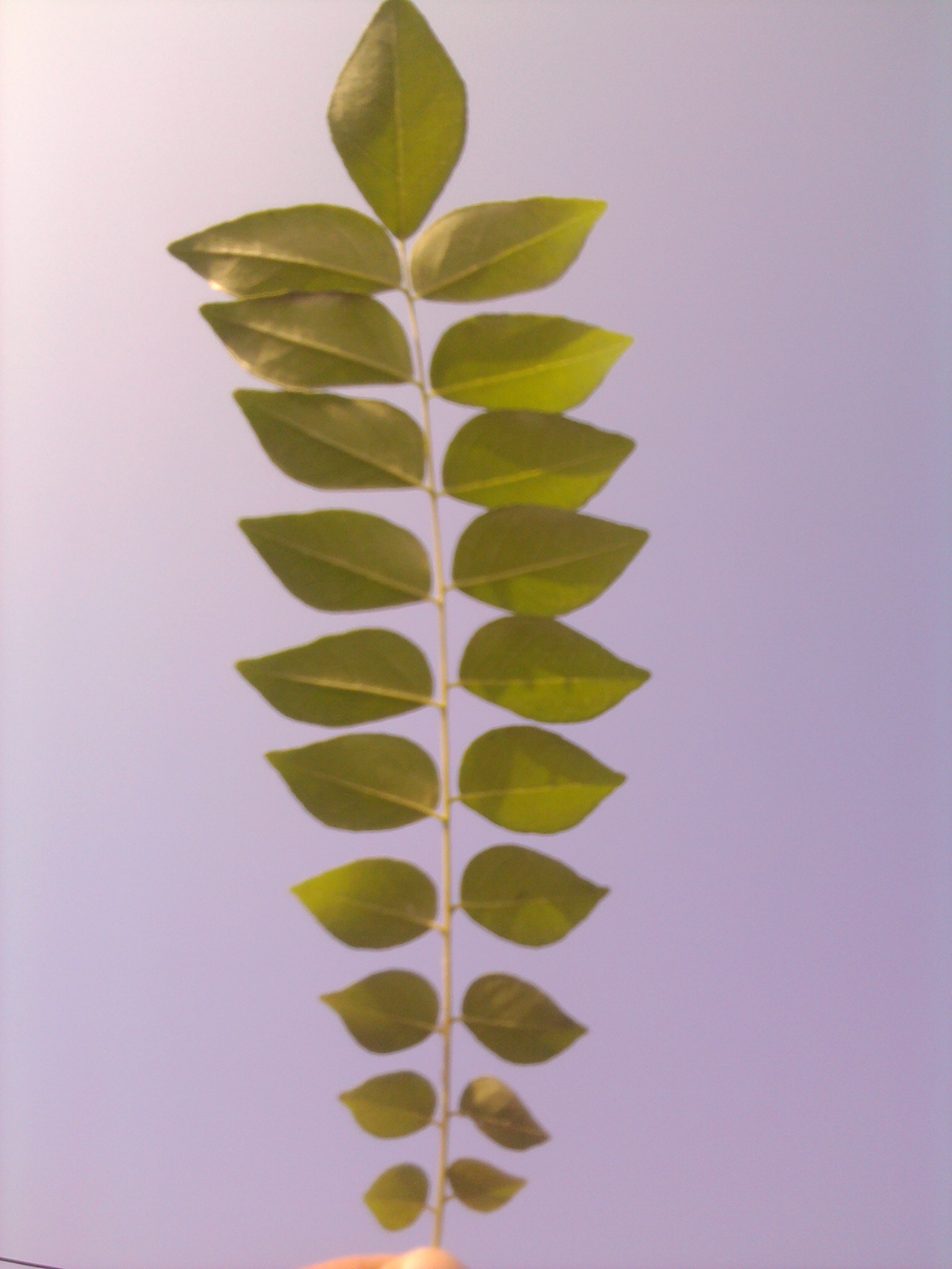 Curry Leaf small branch (twig), (sprig) Unknown